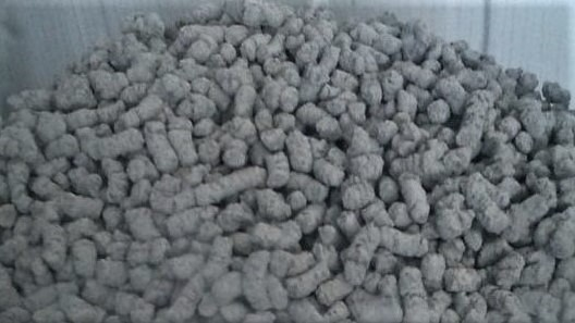 Lithuanian Opoka (Oil absorbent, granular particles), STONISKIAI, TAURAGE County (LITHUANIA, LT)